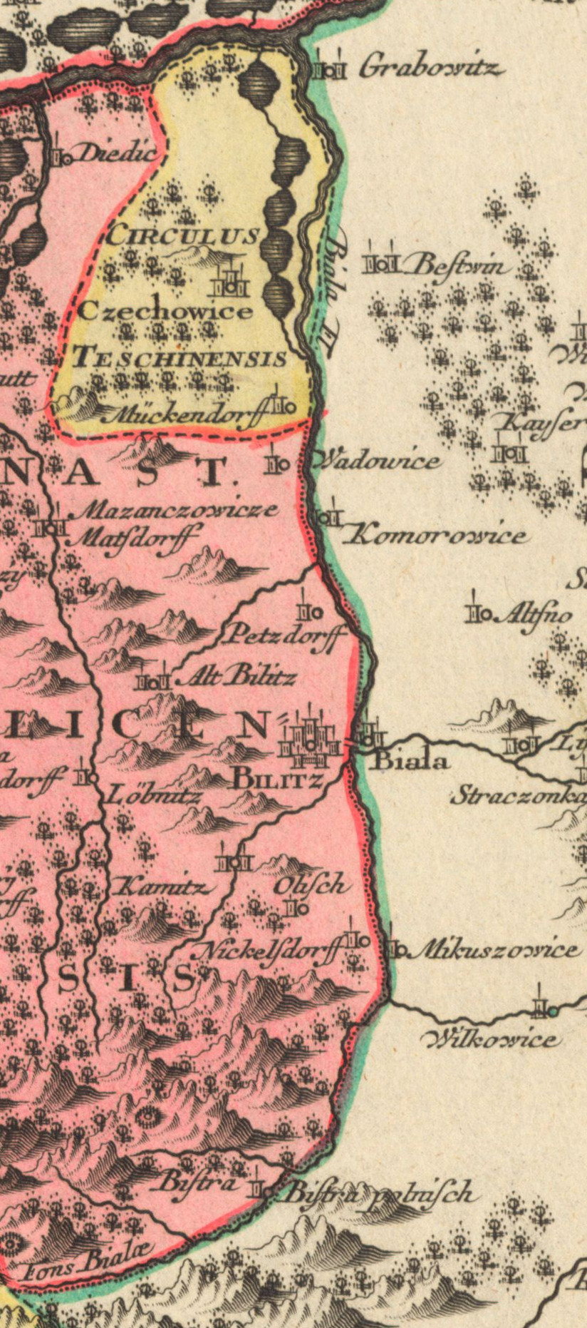 Biała River (Fons Biala) as border river